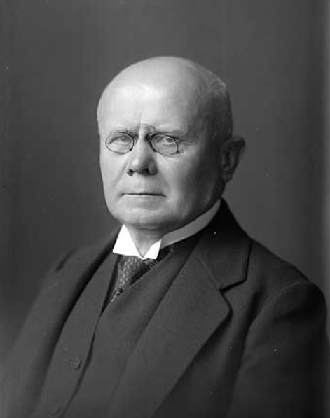 prof. JUDr. Miloslav Stieber (1865–1934), professor of the history of Central European public and private law at the Law Faculty of Charles University